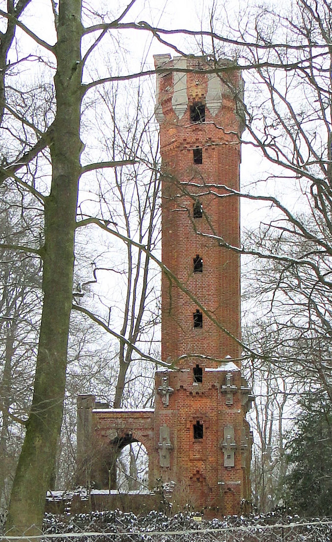 Observation tower (Katzenturm) in the park of the manor house in Tessin (Wittendörp), district Ludwigslust-Parchim, Mecklenburg-Vorpommern, Germany